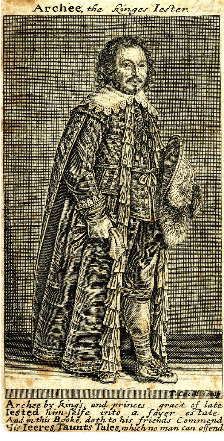 "Archee, the kinges lester," portrait of jester Archibald Armstrong, engraving, by the English printmaker Thomas Cecil. 133 mm x 69 mm. Courtesy of the British Museum, London.